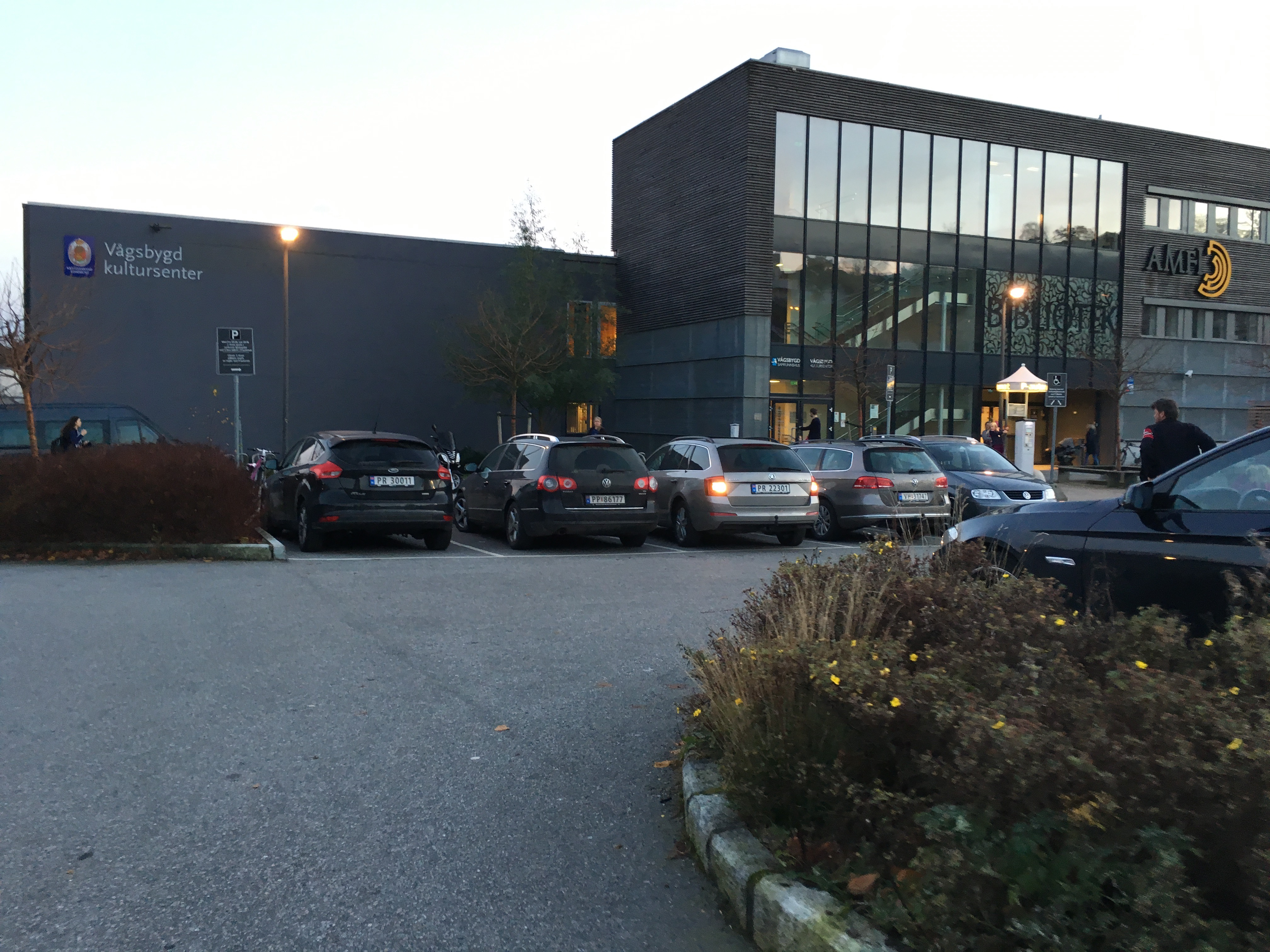 Vågsbygd Culture Center, Kristiansand